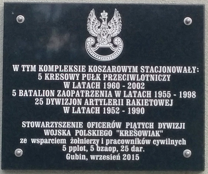 A plaque commemorating the regiment stationed in Gubin